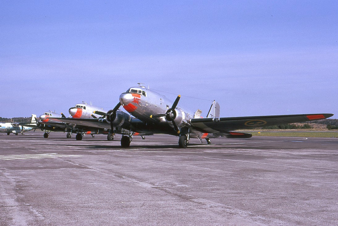 Douglas C-47A, Swedish Air Force designation Tp 79, at Torslanda airport (ESGB, closed) Göteborg (Gothenburg), Sweden.